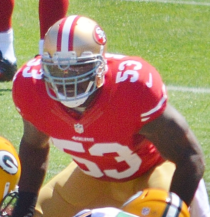 NaVorro Bowman, SF 49ers linebacker playing in home opener vs Green Bay Packers